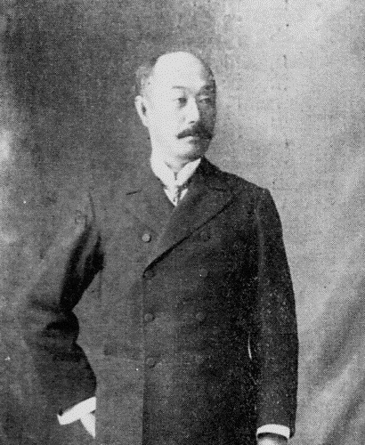 Nobuchika Oda